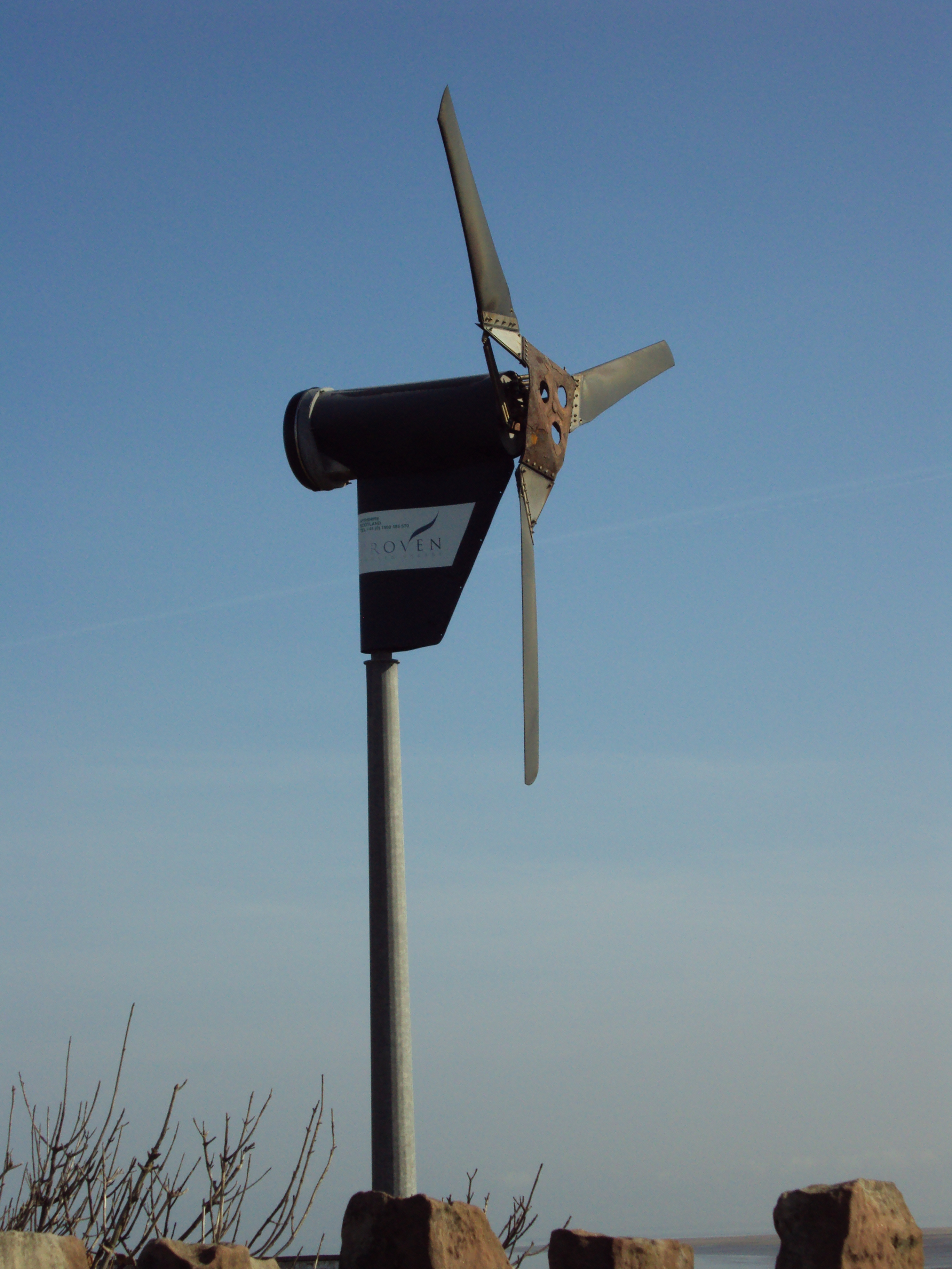 Wind Turbine on Hilbre Island, Wirral, England.